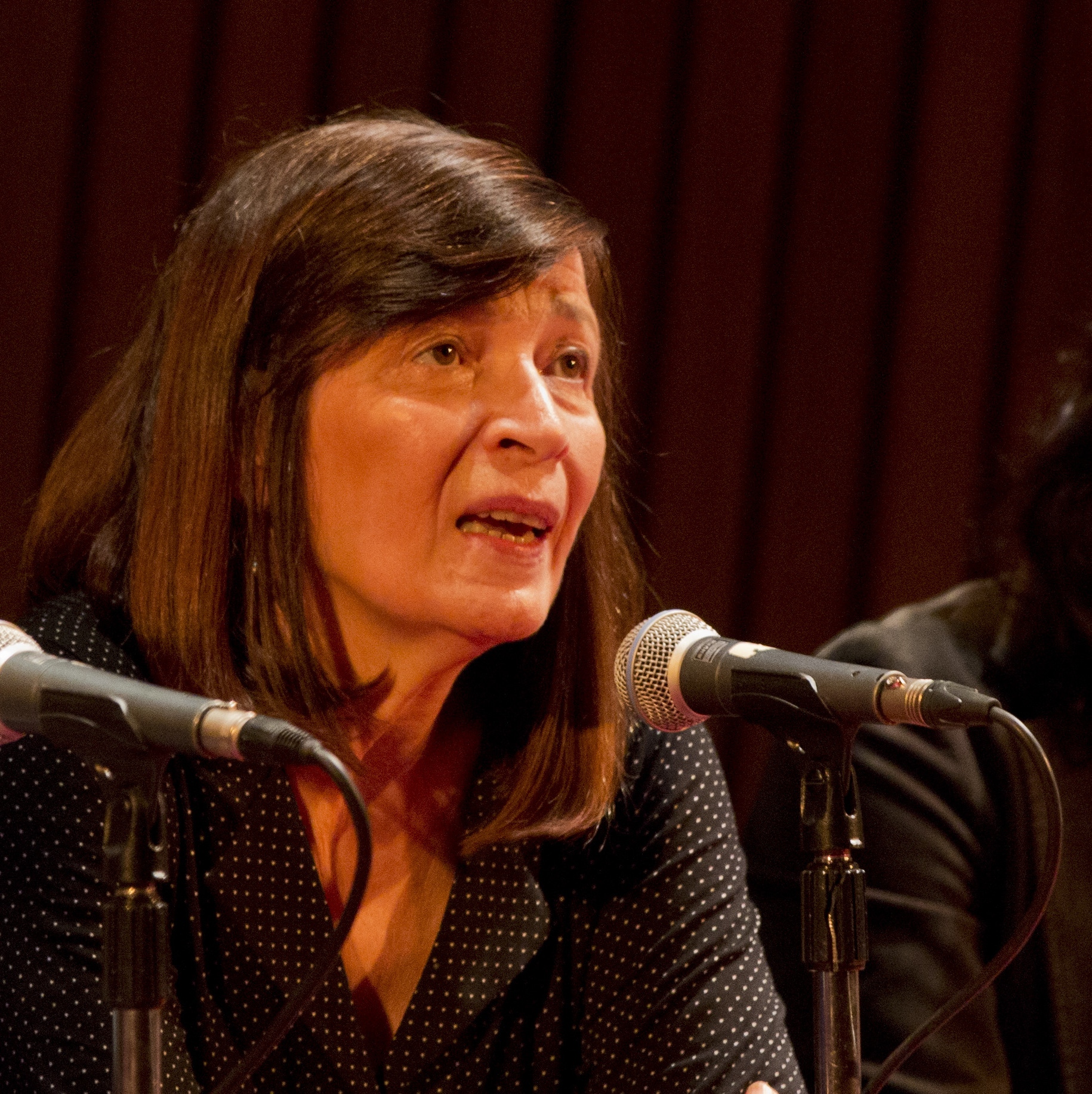 Graciela Speranza in 2015. La Ministra de Cultura de la Nación, Teresa Parodi, presentó esta mañana, en el Auditorio J. L. Borges de la Biblioteca Nacional, la plataforma “Audioteca”, la primera colección de treinta cuentos de autores argentinos grabados por actores que será de carácter federal, público y gratuito. Participaron también de la presentación el secretario de Gestión Cultural, Jorge Espiñeira, la coordinadora de “Audicoteca”, Lucrecia Martel, y la curadora de la colección de cuentos, Graciela Speranza. Fotos : Margarita Solé / Ministerio de Cultura de la Nación